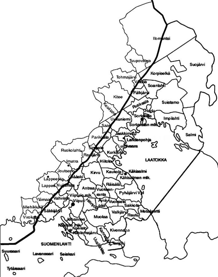 Karelian municipalities which Finland ceded to Soviet Union in 1940.